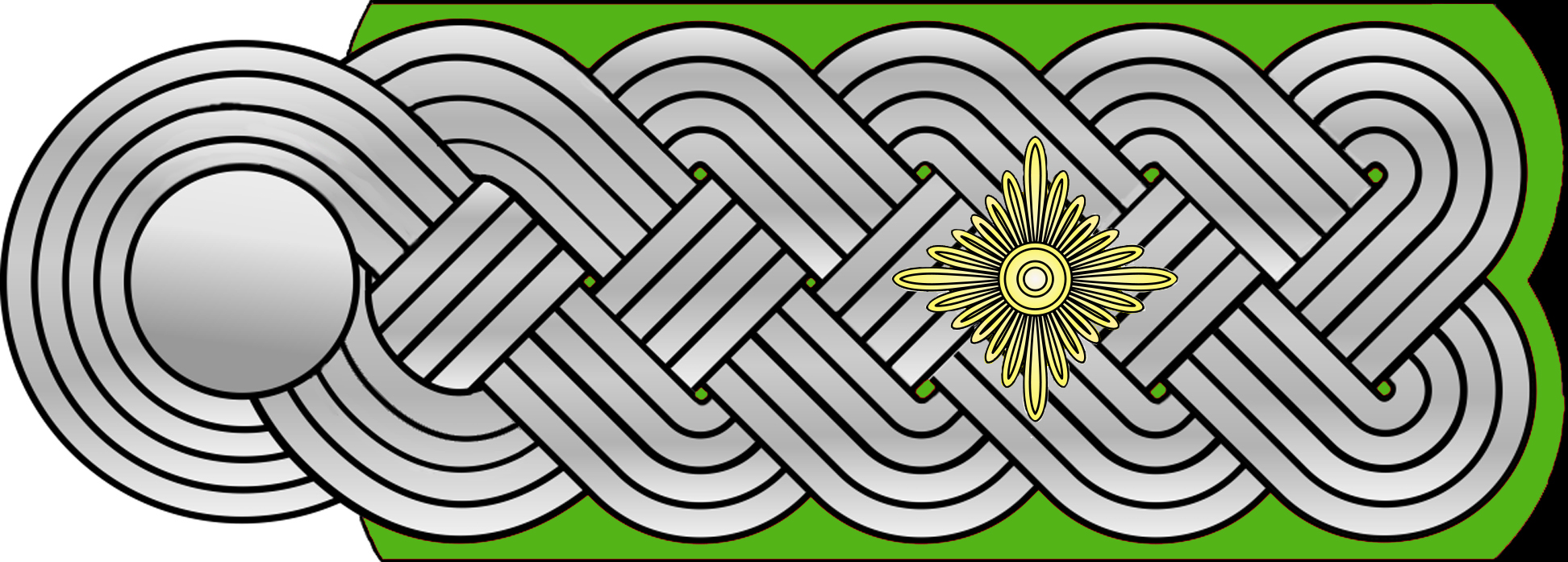 Rang insignia shoulder strap, here SS-Obersturmbannfuehrer of the Waffen-SS until 1945